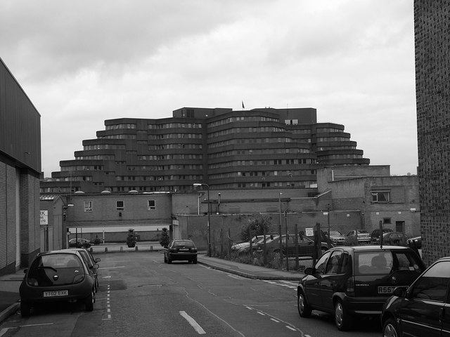 Manpower Services Commission - Sheffield Taken from Thomas St